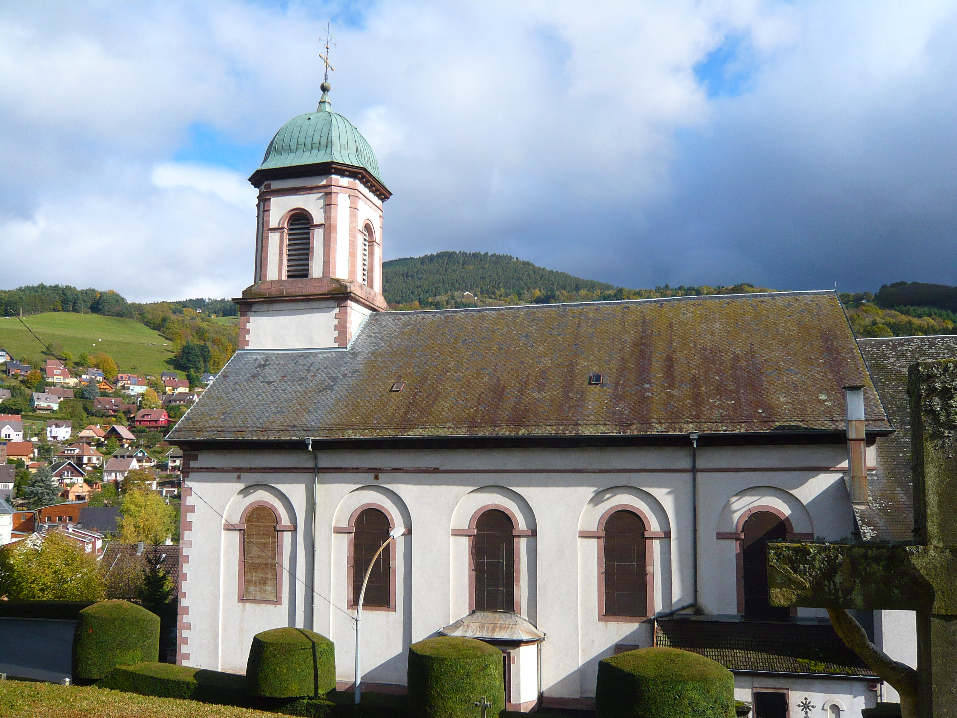 Church of Fréland